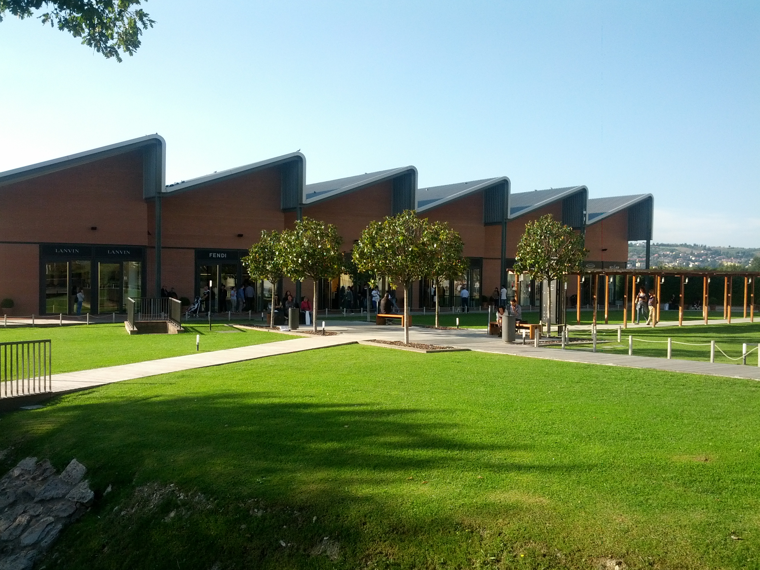 The mall outlet